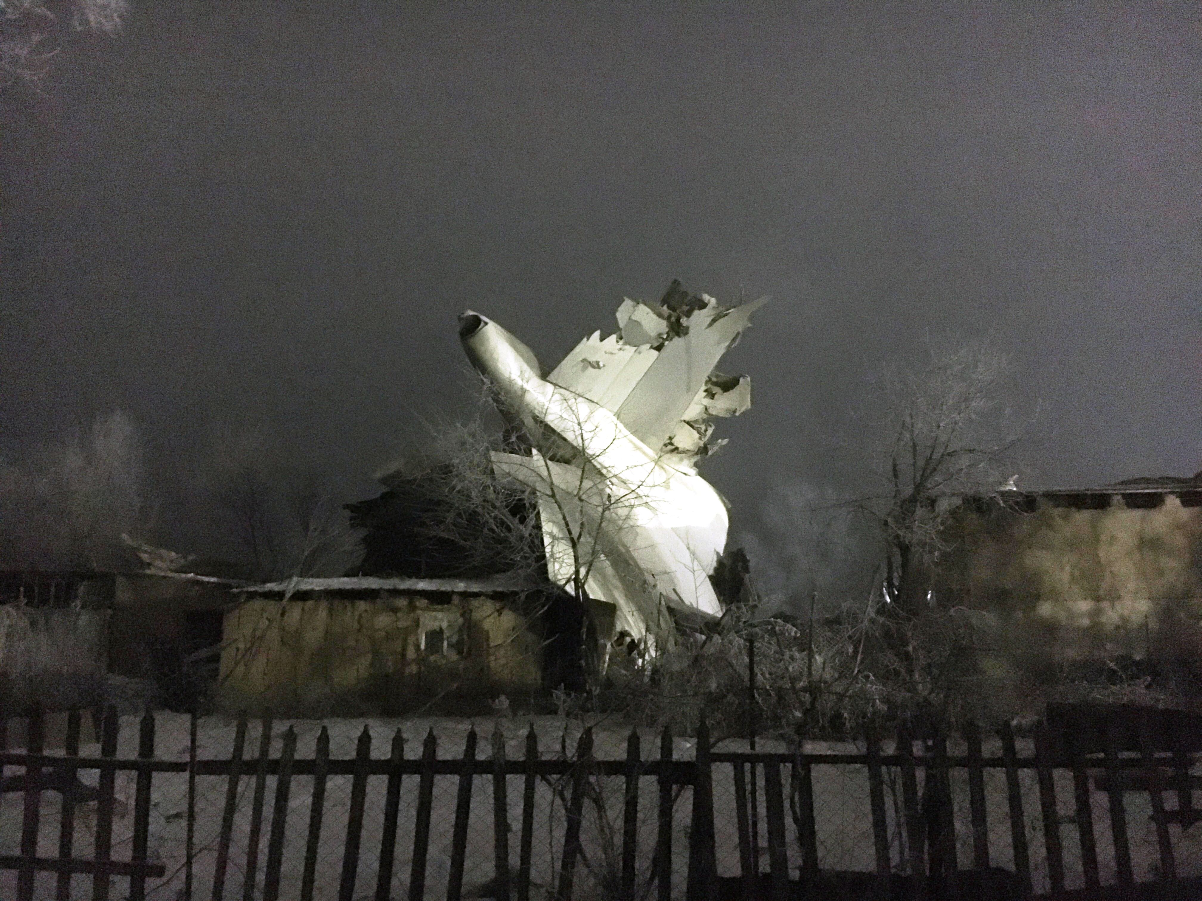 The tail wreckage of Turkish Airlines Flight 6491 that crashed near Bishkek, Kyrgyzstan.